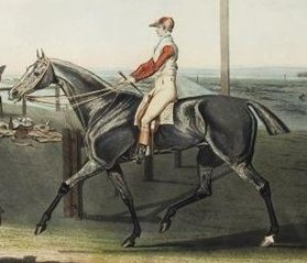 Crop of Gustavus, Epsom Derby winner of 1821.